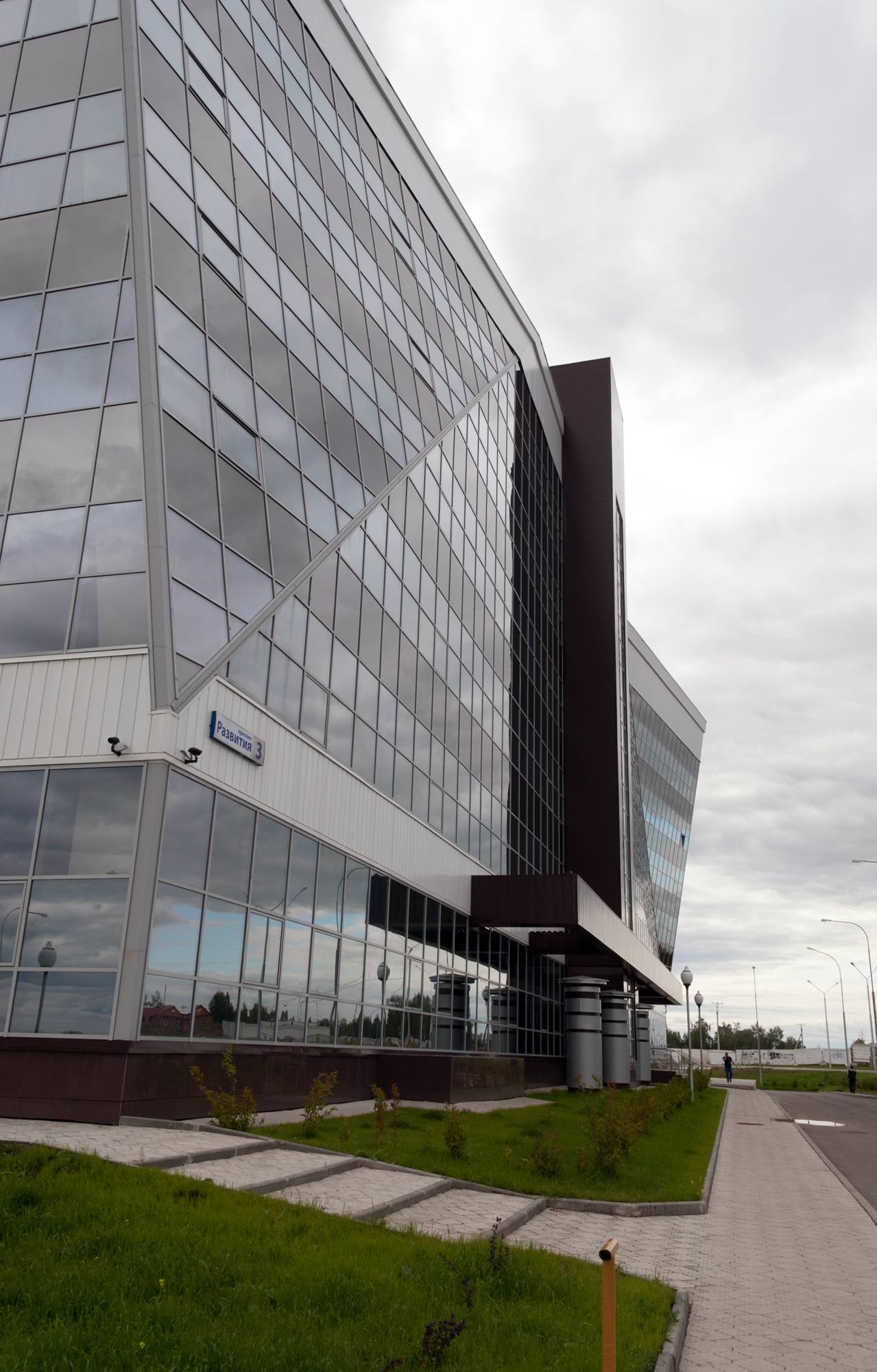 Special Economic zones of Technology-innovative type in Tomsk. Engineering center.